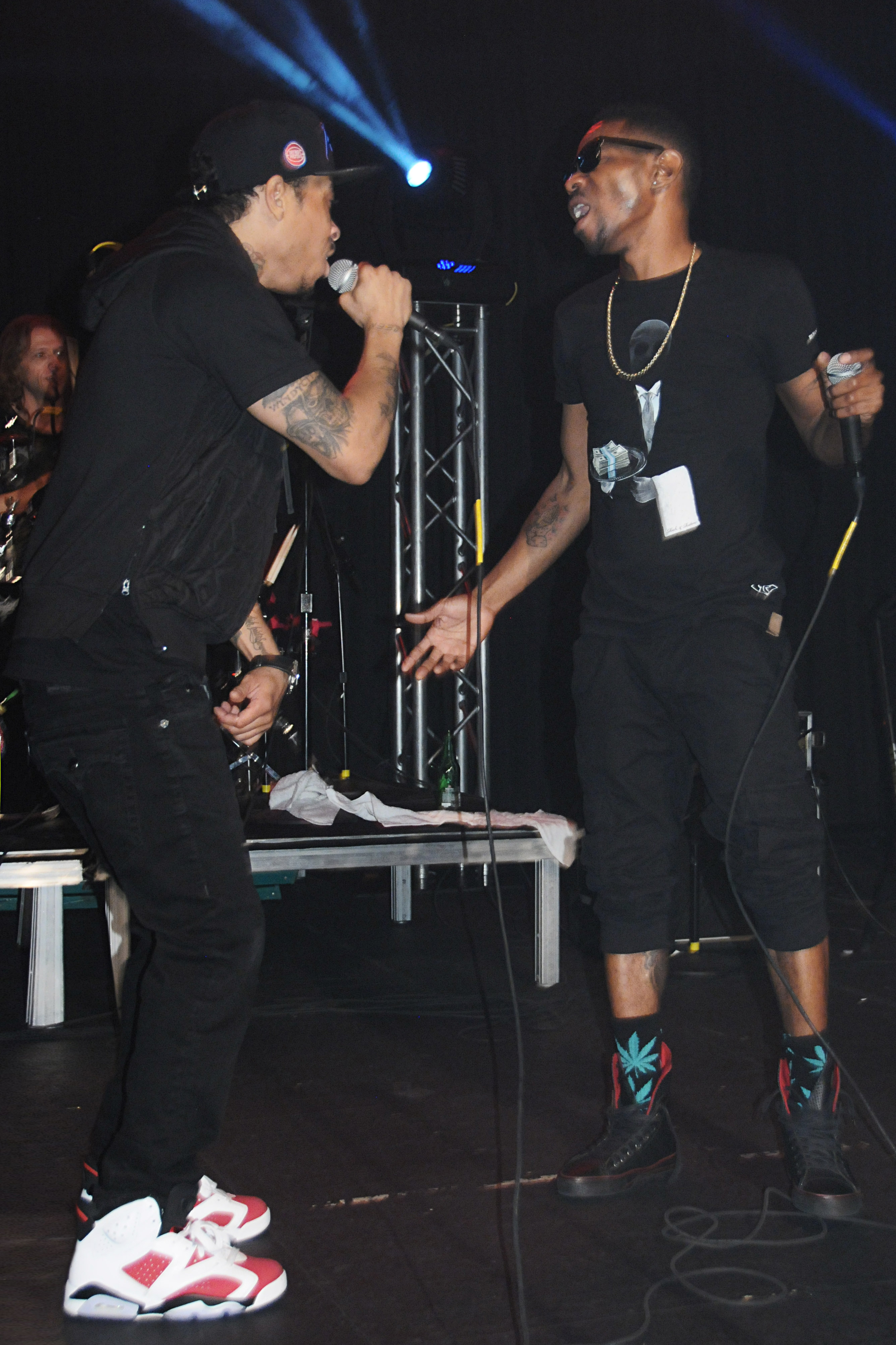 Hype-man: 'Relione' (right) performing with Rapper 'Chef Sean' - Photo by Glenn Francis of